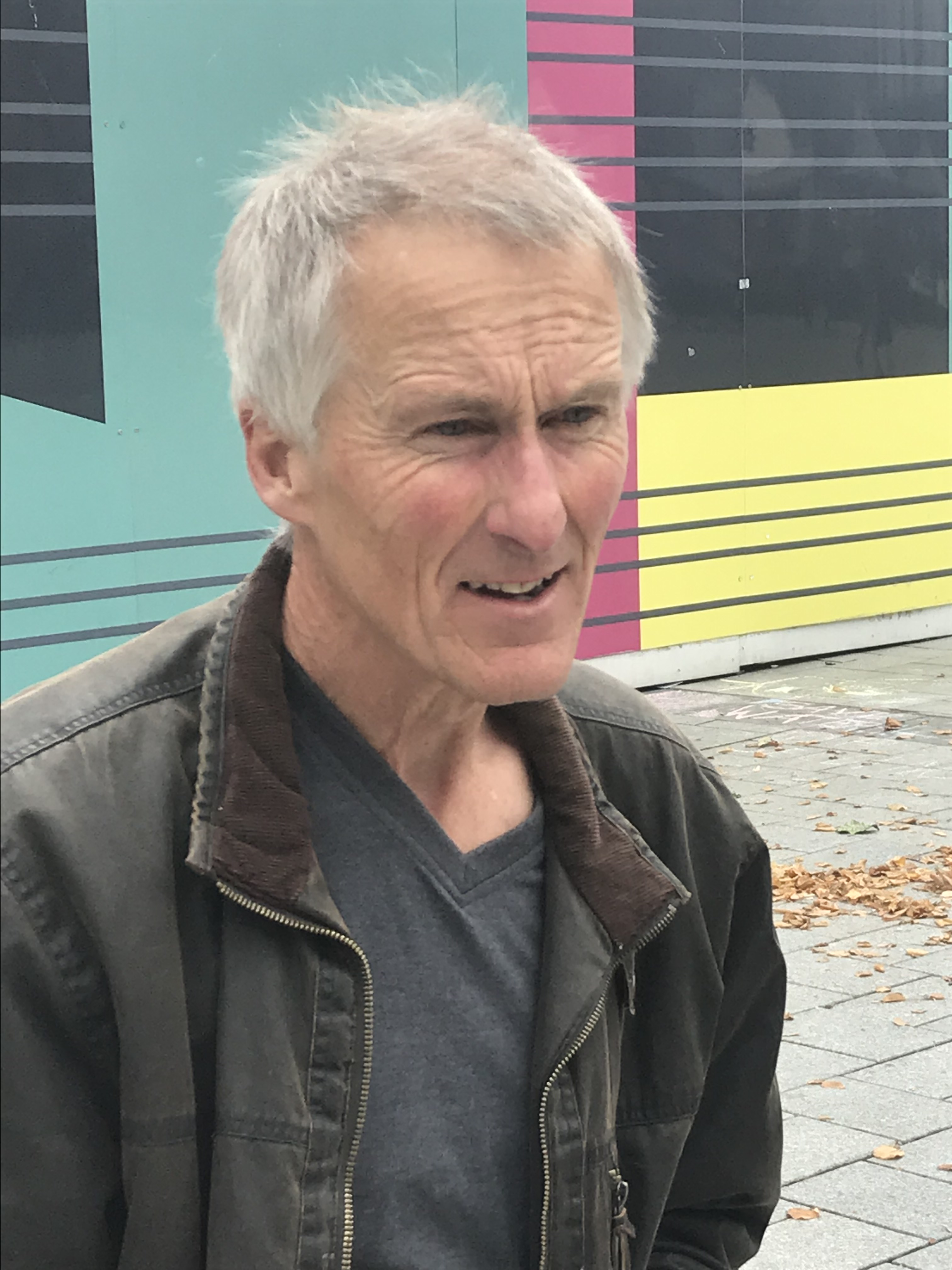 Sam Mahon in March 2019